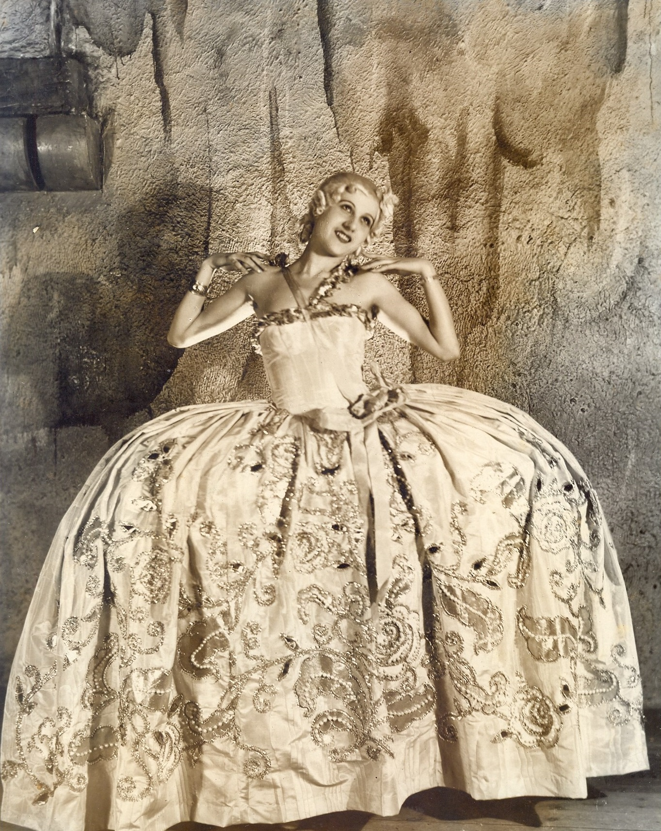 Bulgarian ballerina Feo Mustakova-Genadieva.